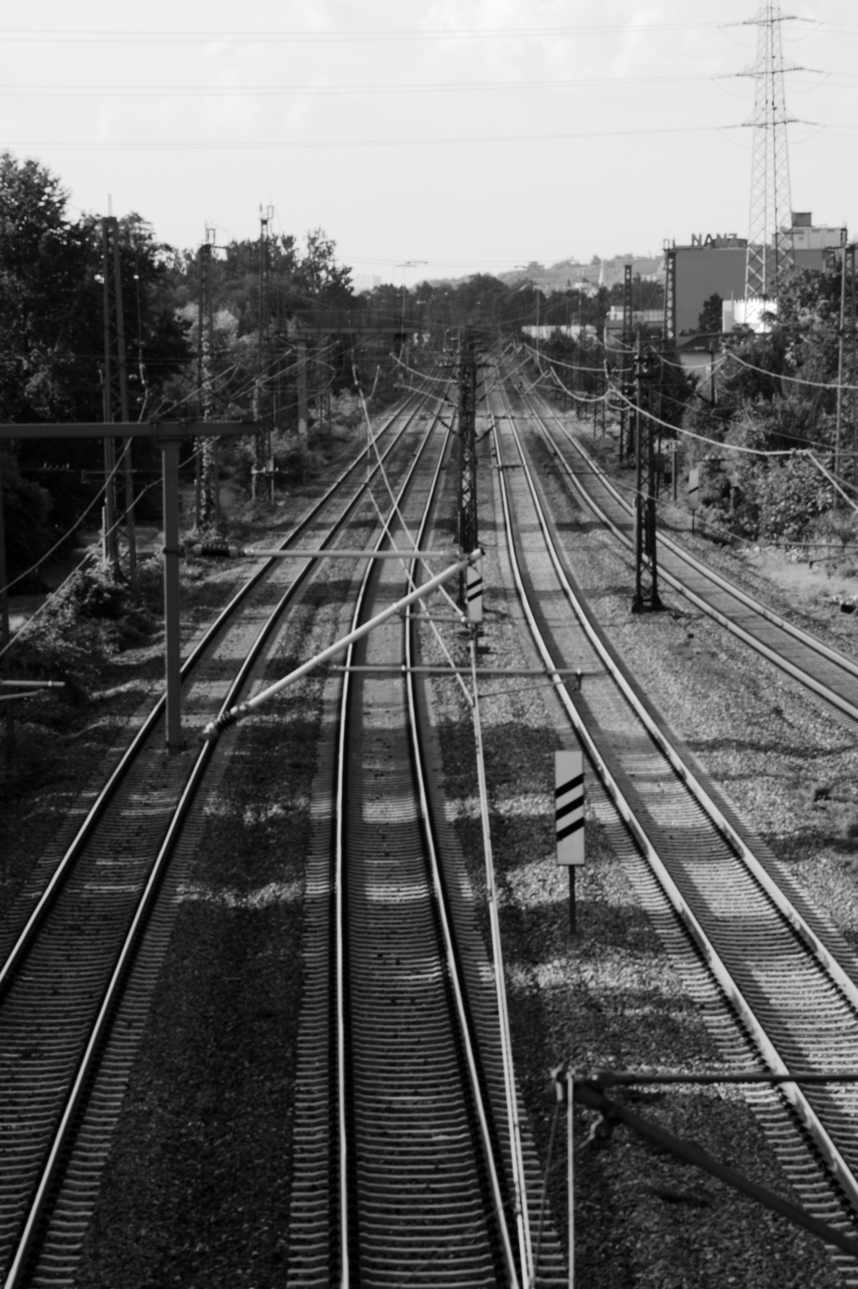 Rails north of Stuttgart-Obertürkheim railway station